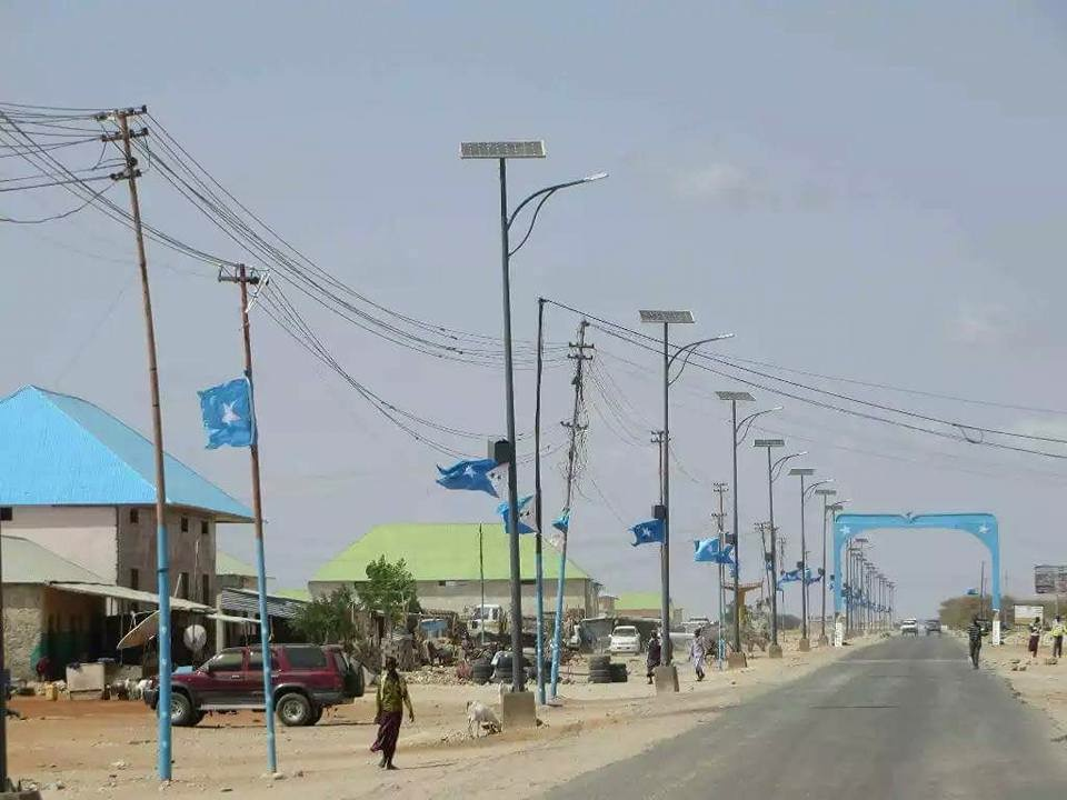 Adado City Galmudug state Somalia